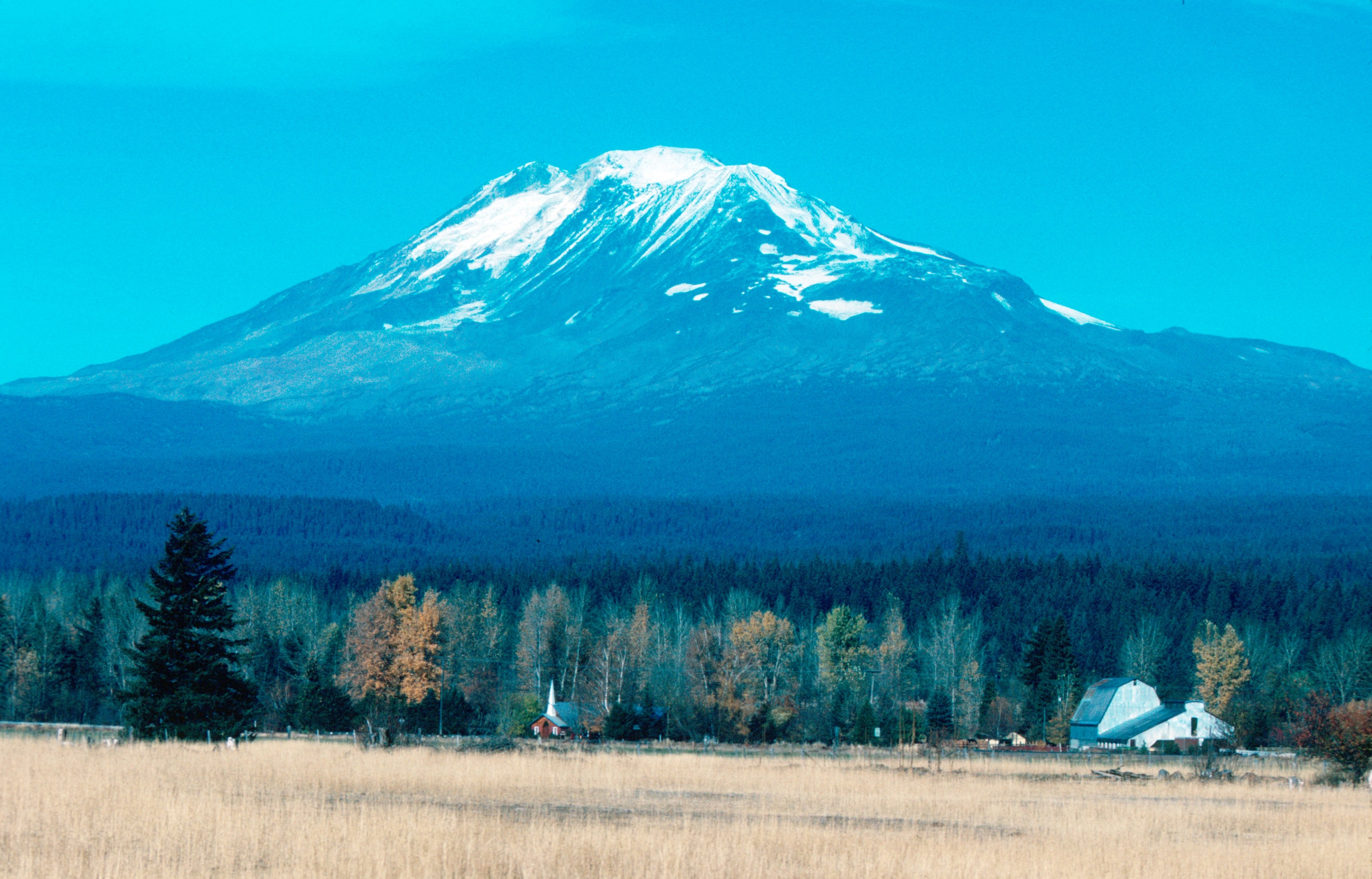 USGS/Cascades Volcano Observatory photo of Mount Adams